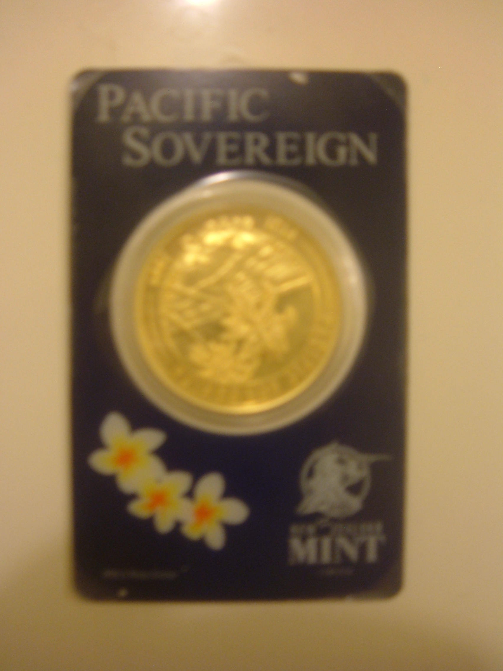 pic of front of my 1oz gold pacific sovereign with my crappy low-megapixel camera...feel free to replace